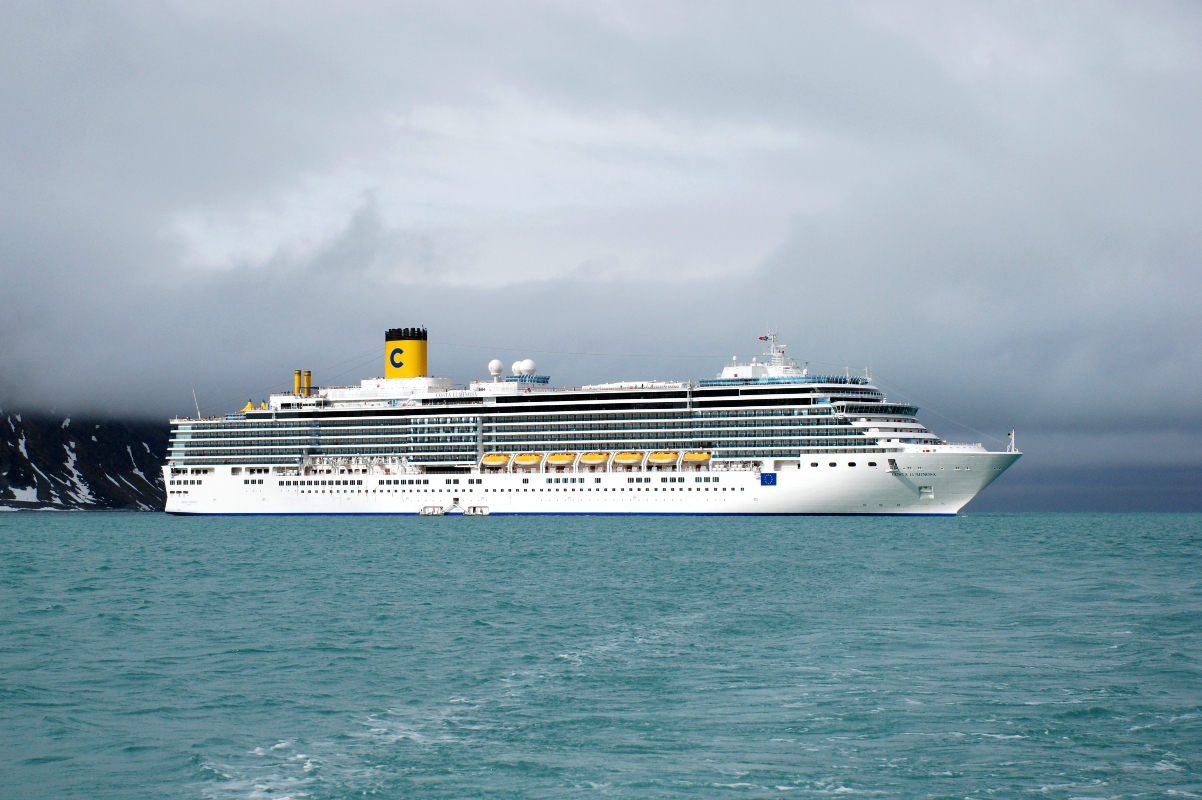 Costa Luminosa in Magdalenafjord, Spitsbergen.